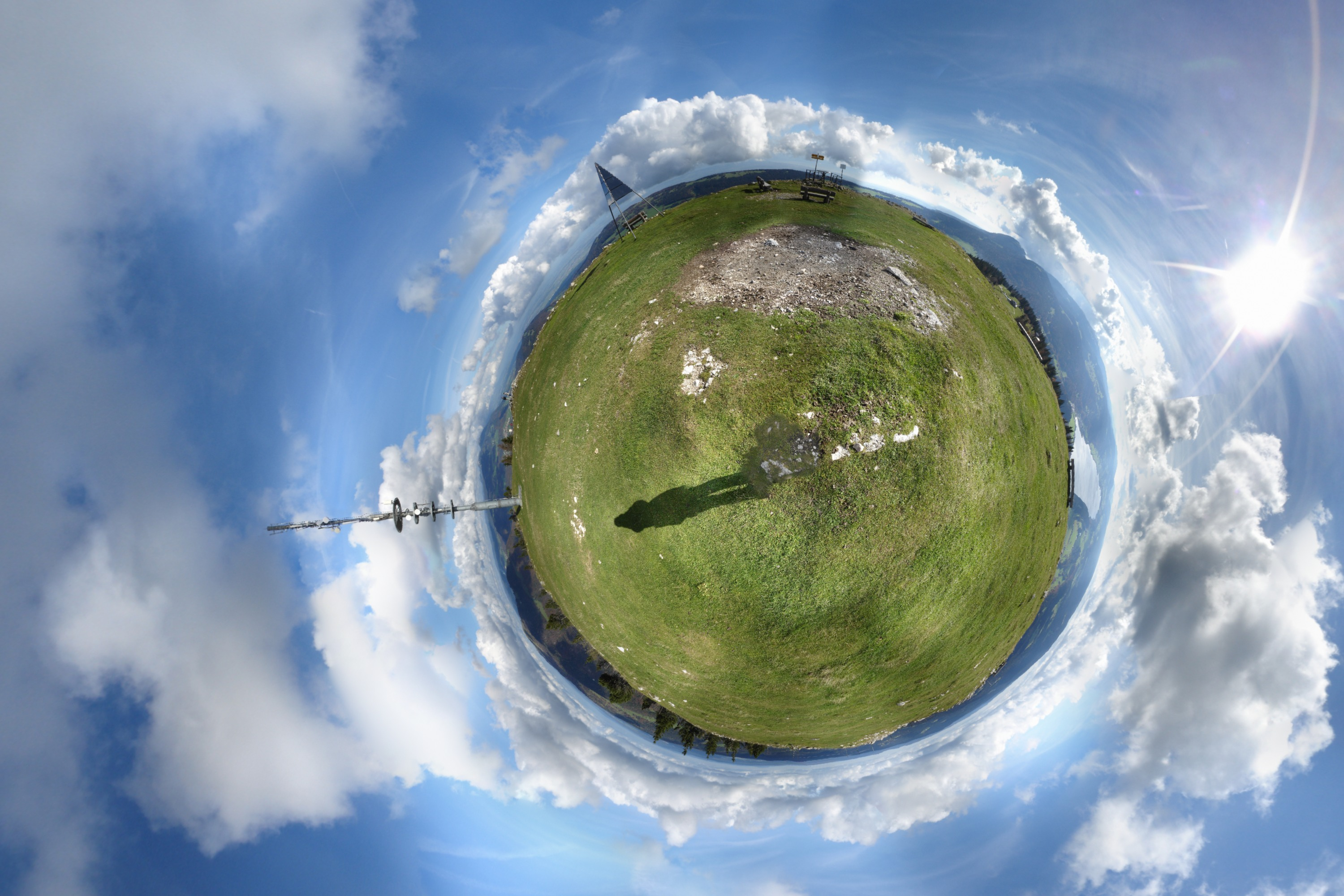 Handheld panorama of 120 (!) pictures. Part of my Wee planets set.